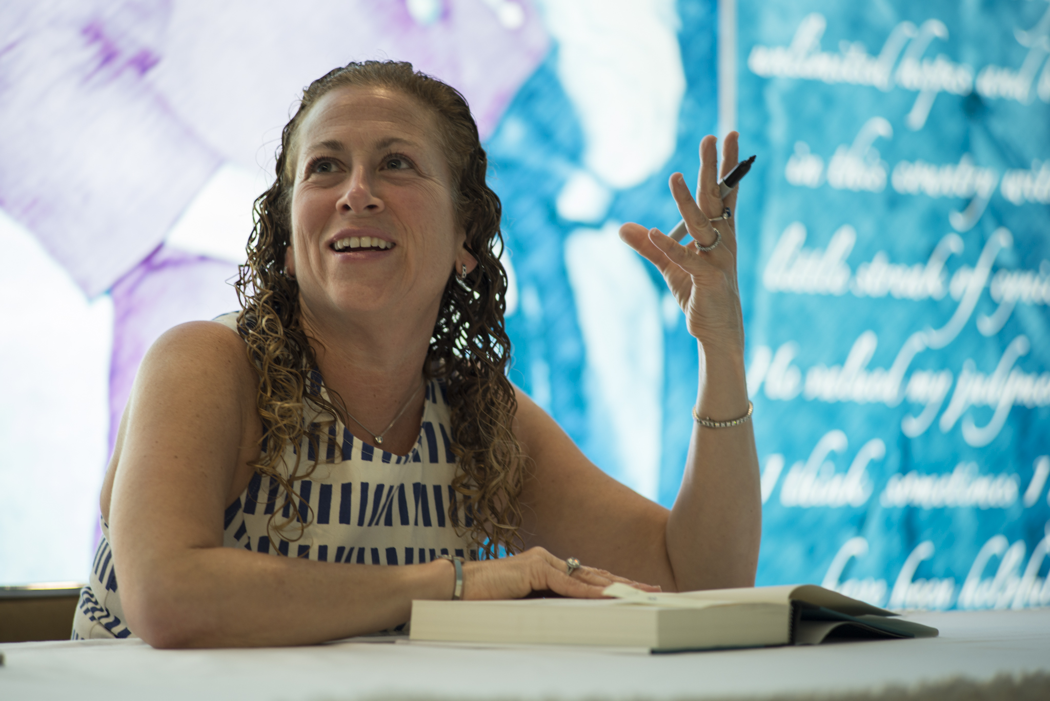 Best-selling author Jodi Picoult served as the 2013 Harry Middleton Lecturer on Tuesday, March 19, at 6:00 p.m. in the LBJ Auditorium. Ms. Picoult discussed her novel The Storyteller (Atria Books, 2/26/13).